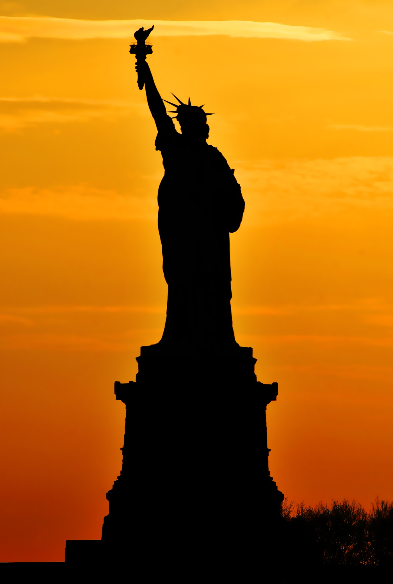 Statue of Liberty taken from Staten Island Ferry